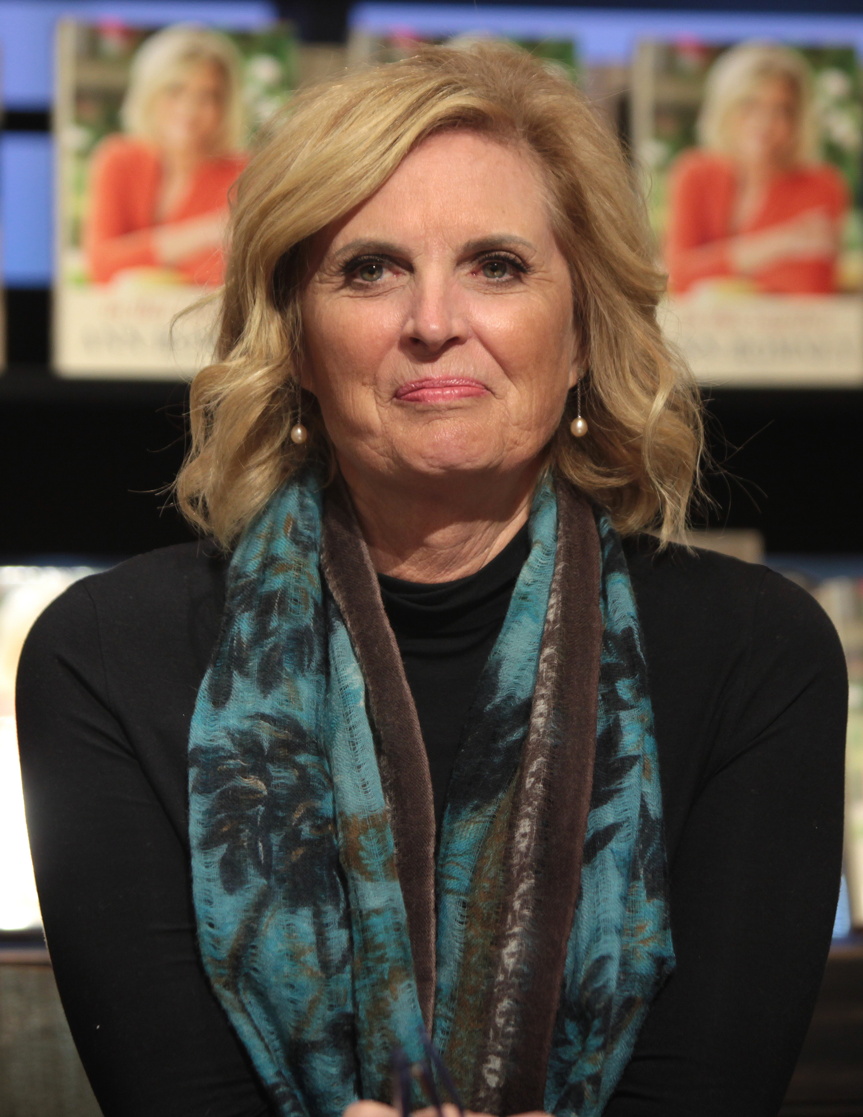 Ann Romney speaking at a book signing in Gilbert, Arizona.